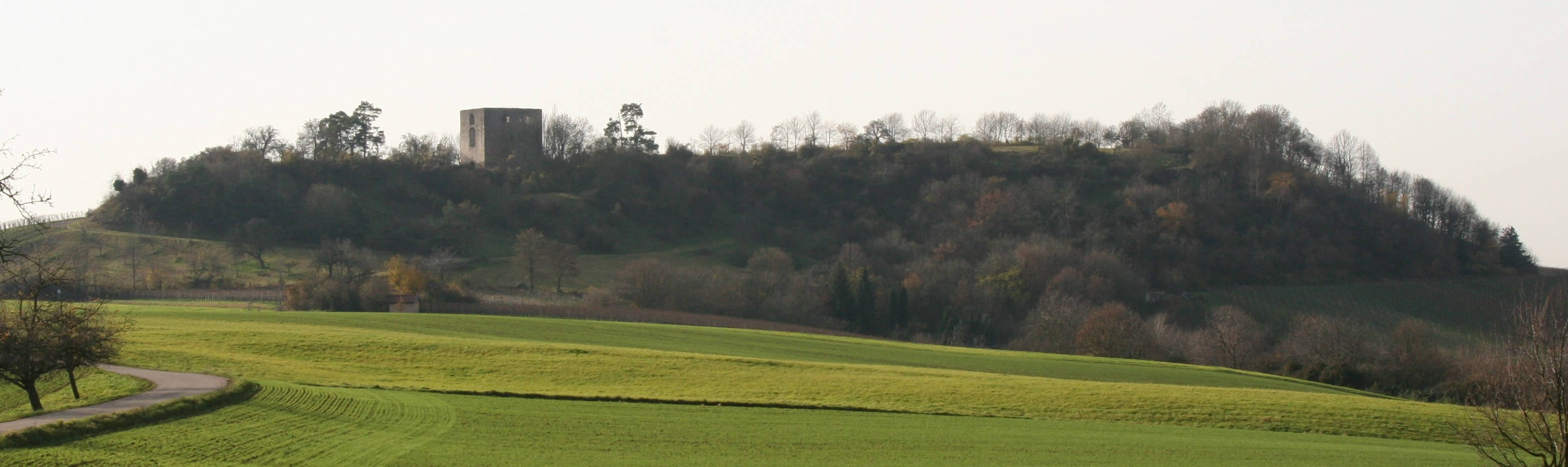 Helfenberg castle ruin in Ilsfeld-Helfenberg as seen from below Wildeck castle